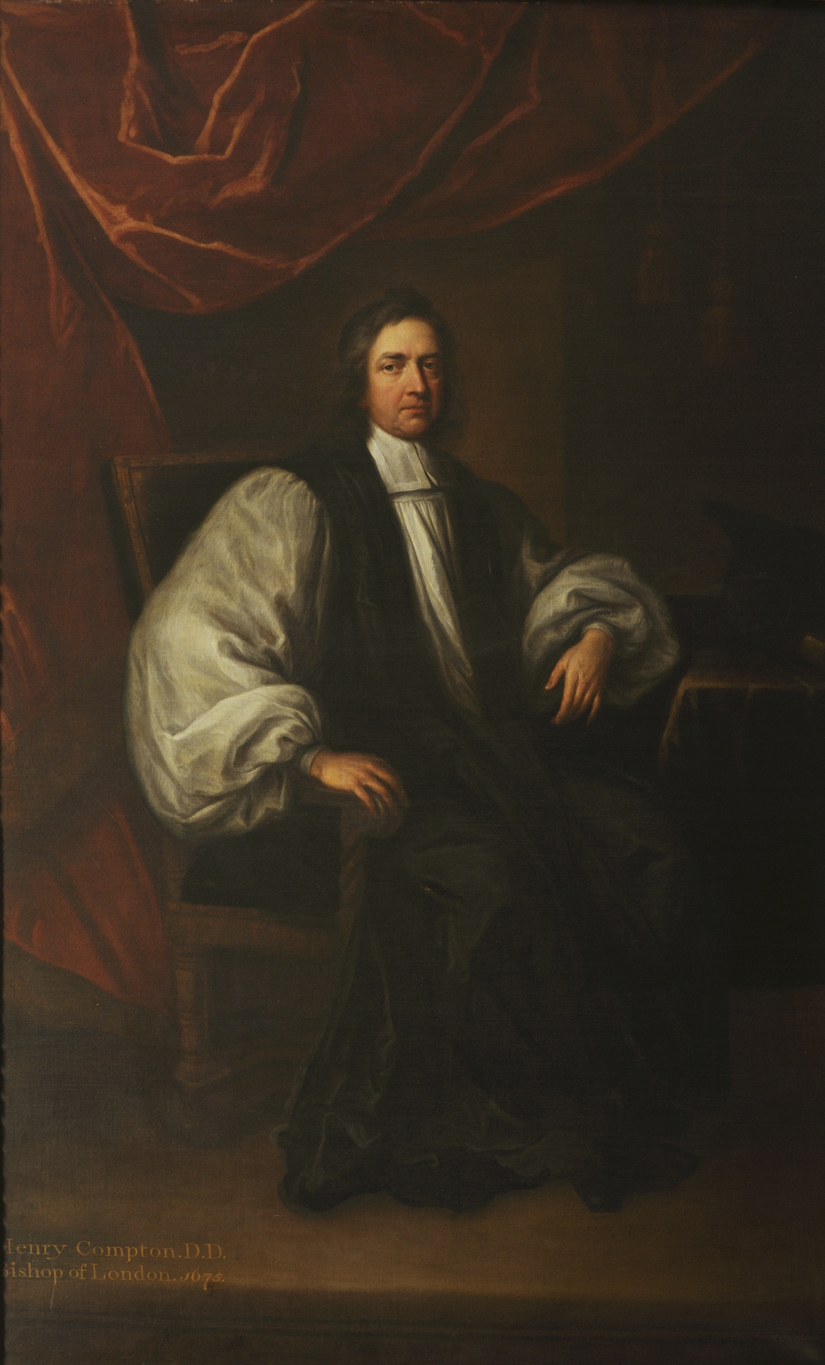 Portrait of Henry Compton